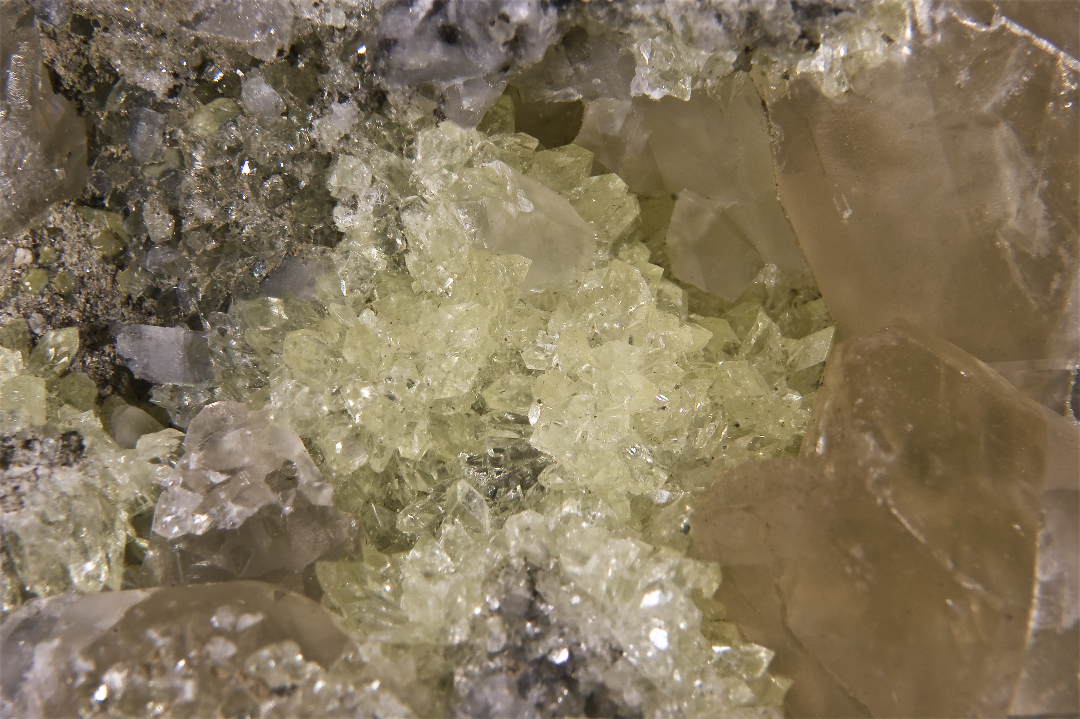 Yellow Fluorapophyllite-(K) Locality : Korsnäs, Vaasa, Länsi-Suomen Lääni, Finland Size :View 1.5cm